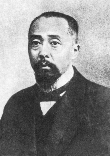 Tang Hualong(1874 - 1918)